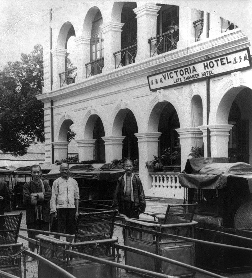 KWANGTUNG CANTON, c1900. The Victoria Hotel (Late Shameen Hotel) with three Cantonese men standing in front with their rickshaws in Shameen, Canton, Kwangtung. Stereograph, 1900. 粵語: 廣州沙面域多厘新酒店